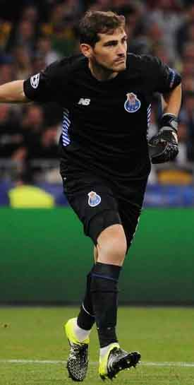 Iker Casillas